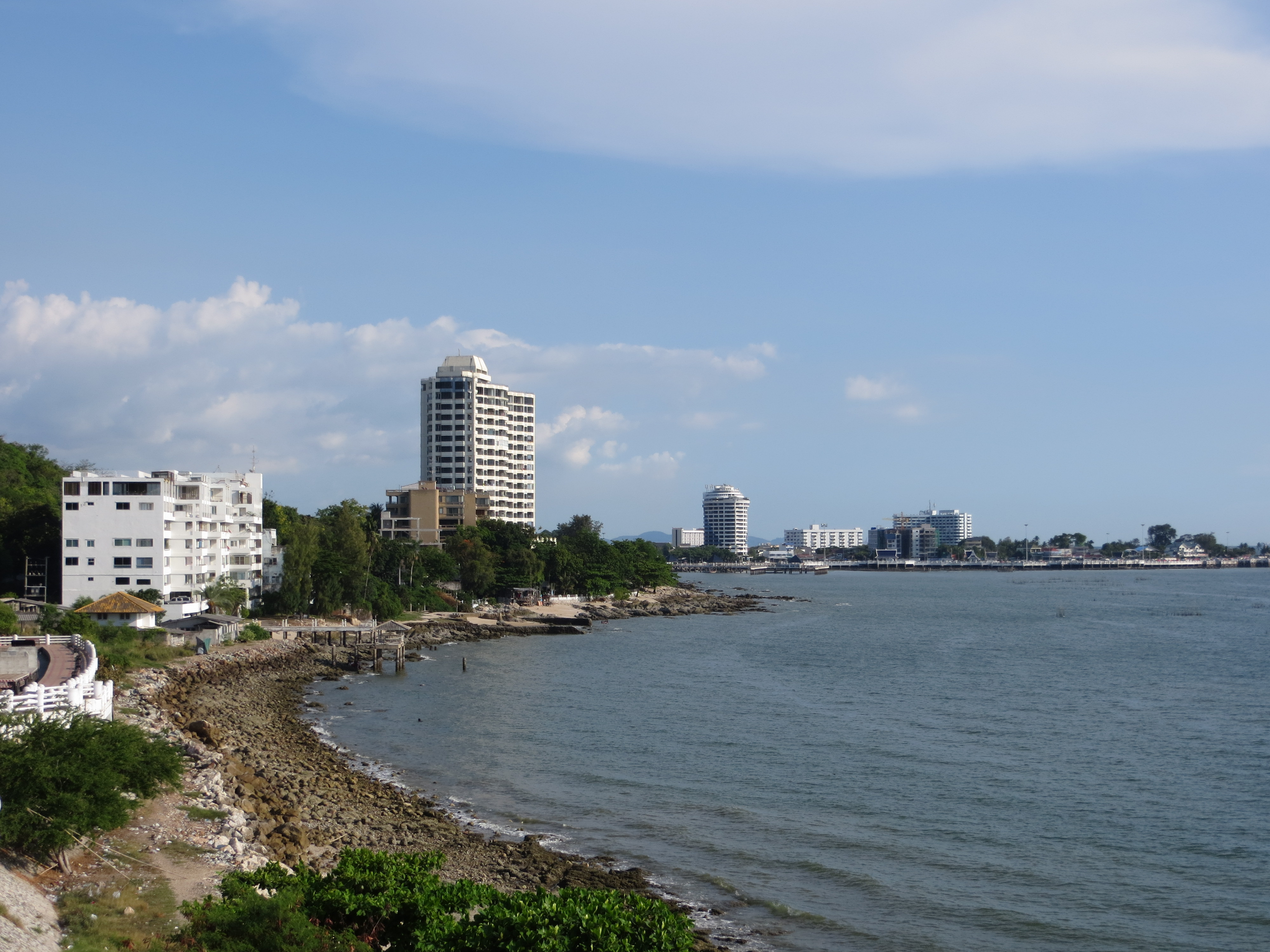 Bang Saen, Chonburi, Thailand